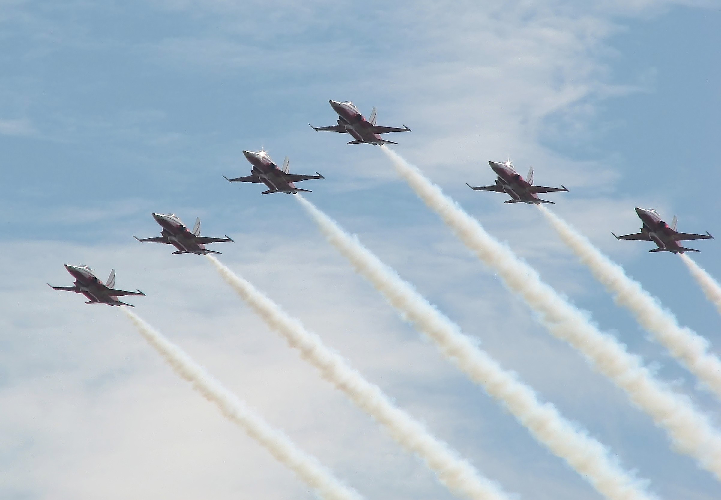 The Patrouille Suisse aerobatics team of Switzerland leaving the Royal International Air Tattoo, Fairford, Gloucestershire, England, to return home. They fly the Northrop F-5E Tiger II. Photographed by Adrian Pingstone on July 17th 2006 and released to the public domain.